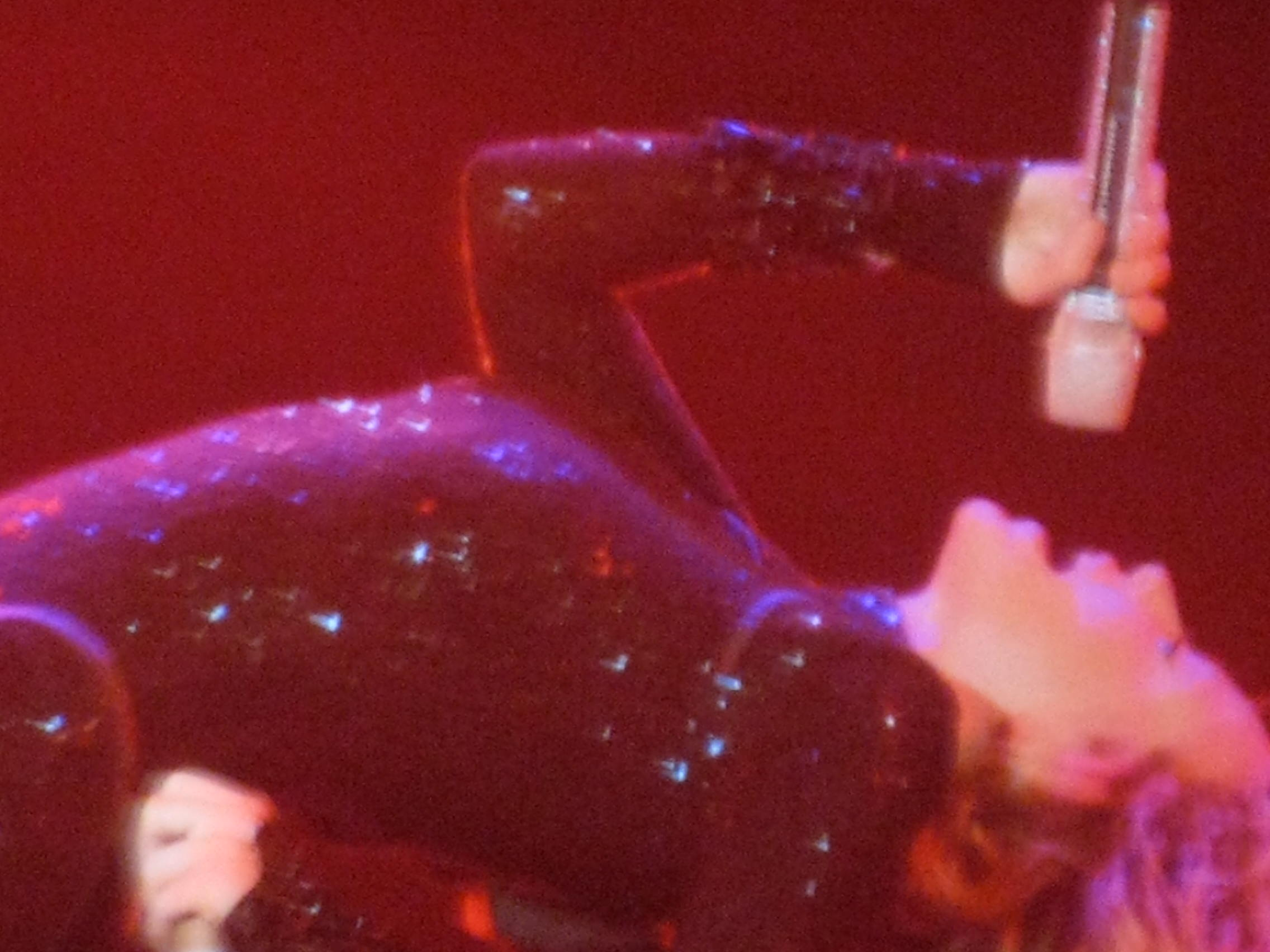 Kylie Minogue performing "Red Blooded Woman" during her 2009 For You, For Me Tour in North America.